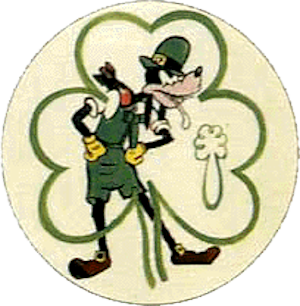 Emblem of the 602d Bombardment Squadron (World War II)